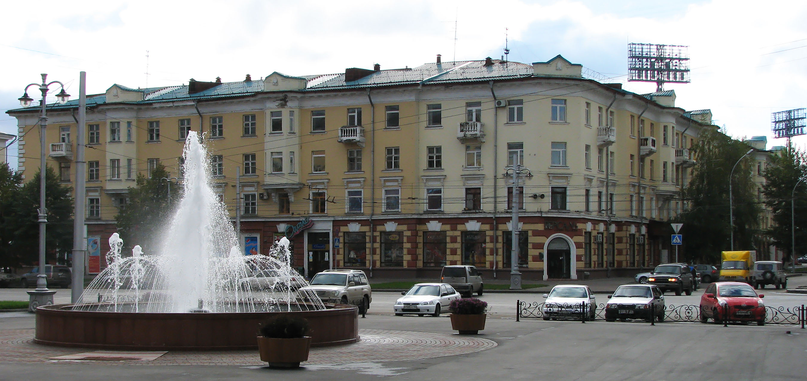 Kemerovo, Soviet ave.